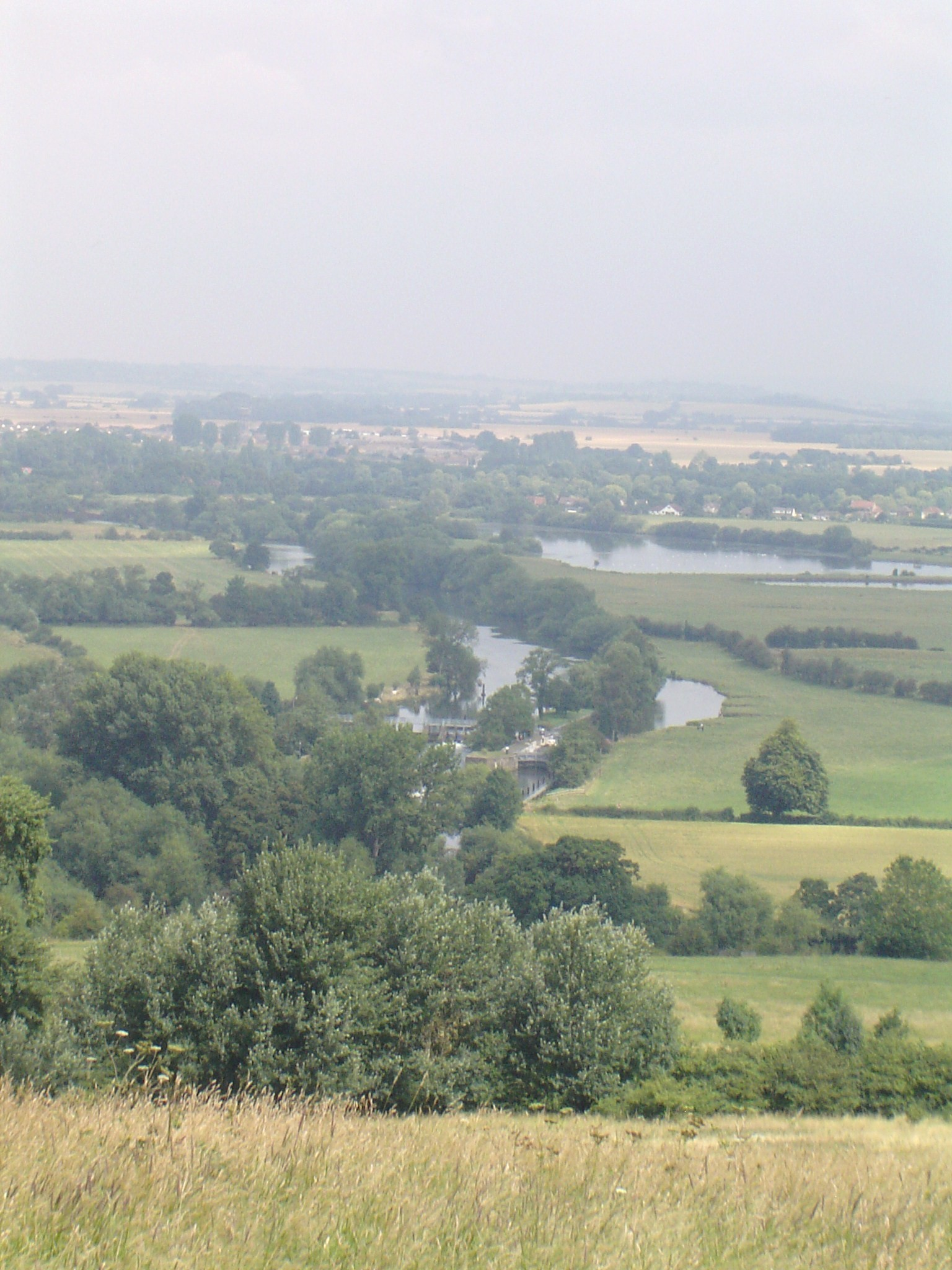 Day's Lock, River Thames, viewed from Wittenham Clumps